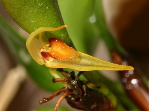 Talpinaria hitchcockii